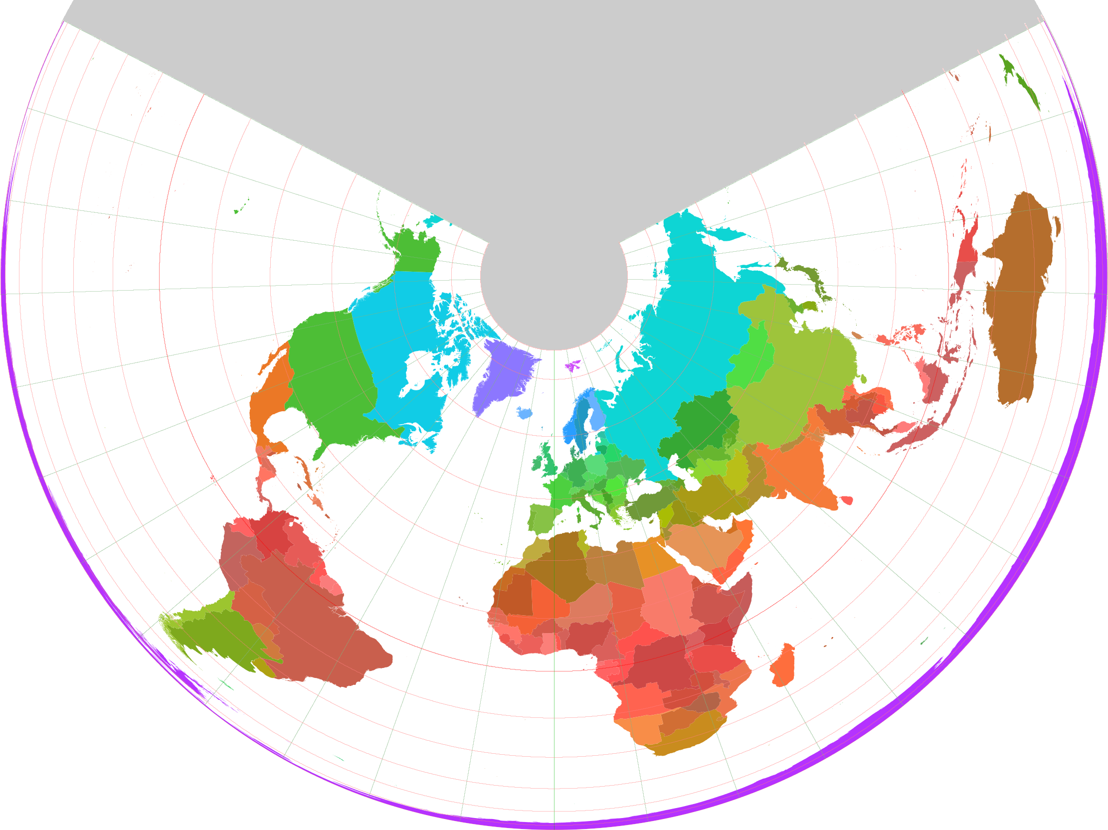 Political map of the World using a surface-area consistent conic projection (with fixed scale parallels 45-22.5 and 45+22.5 degrees) with colours that vary according to latitude.